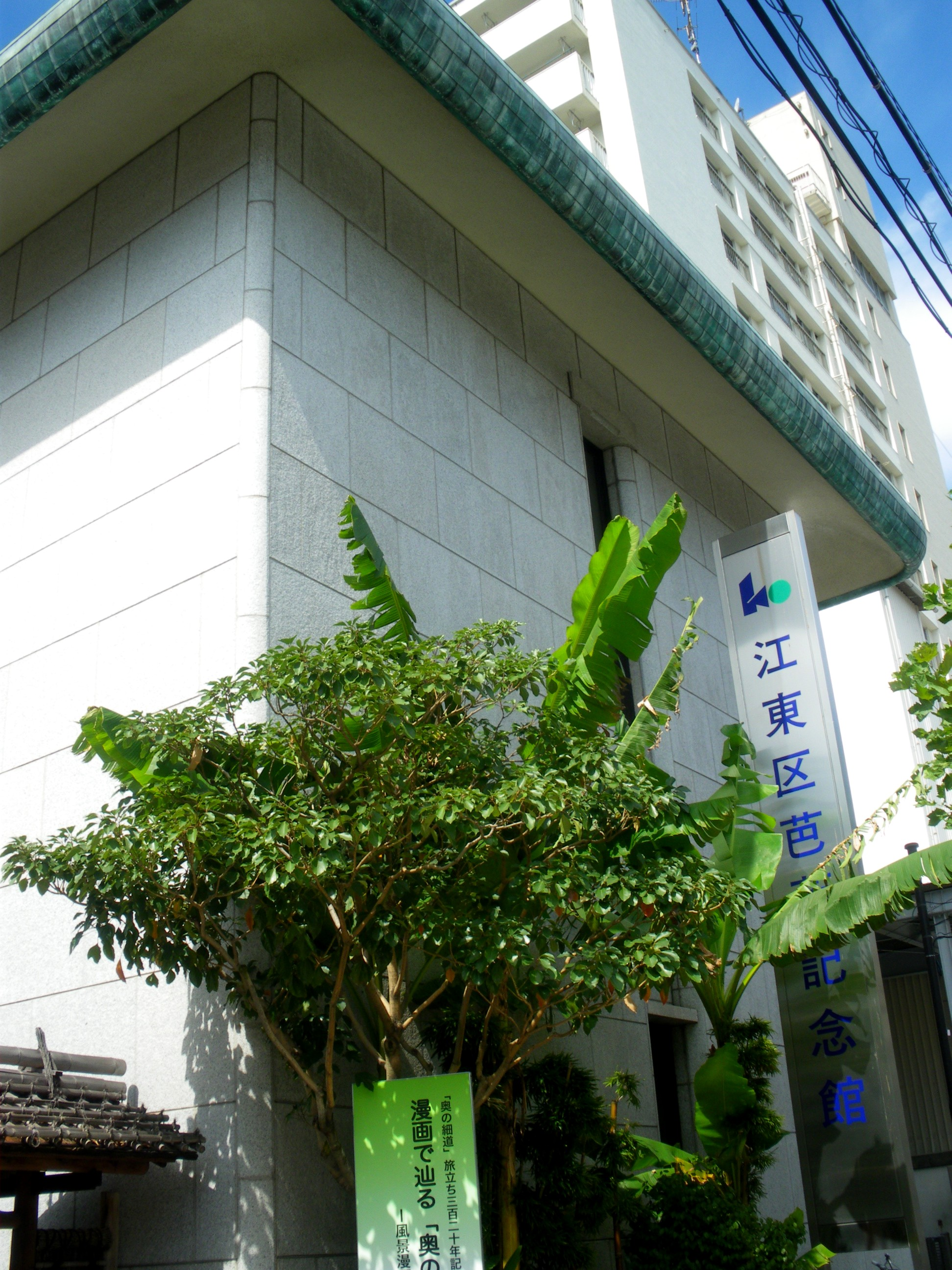 The Bashō Museum (Tokiwa,Koto,Tokyo)